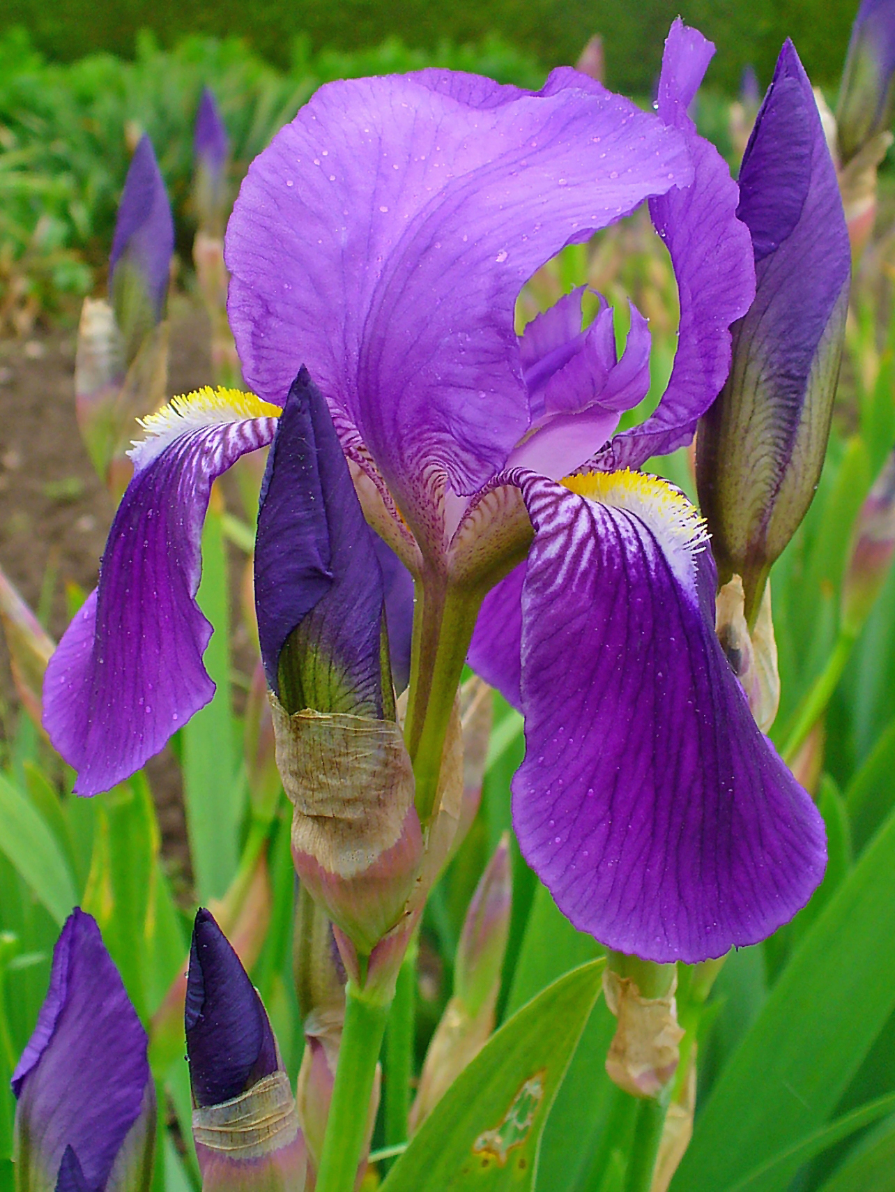 Iris germanica, Iridaceae, German Iris, buds and flower. The fresh, underground parts are used in homeopathy as remedy: Iris germanica (Iris-g.)